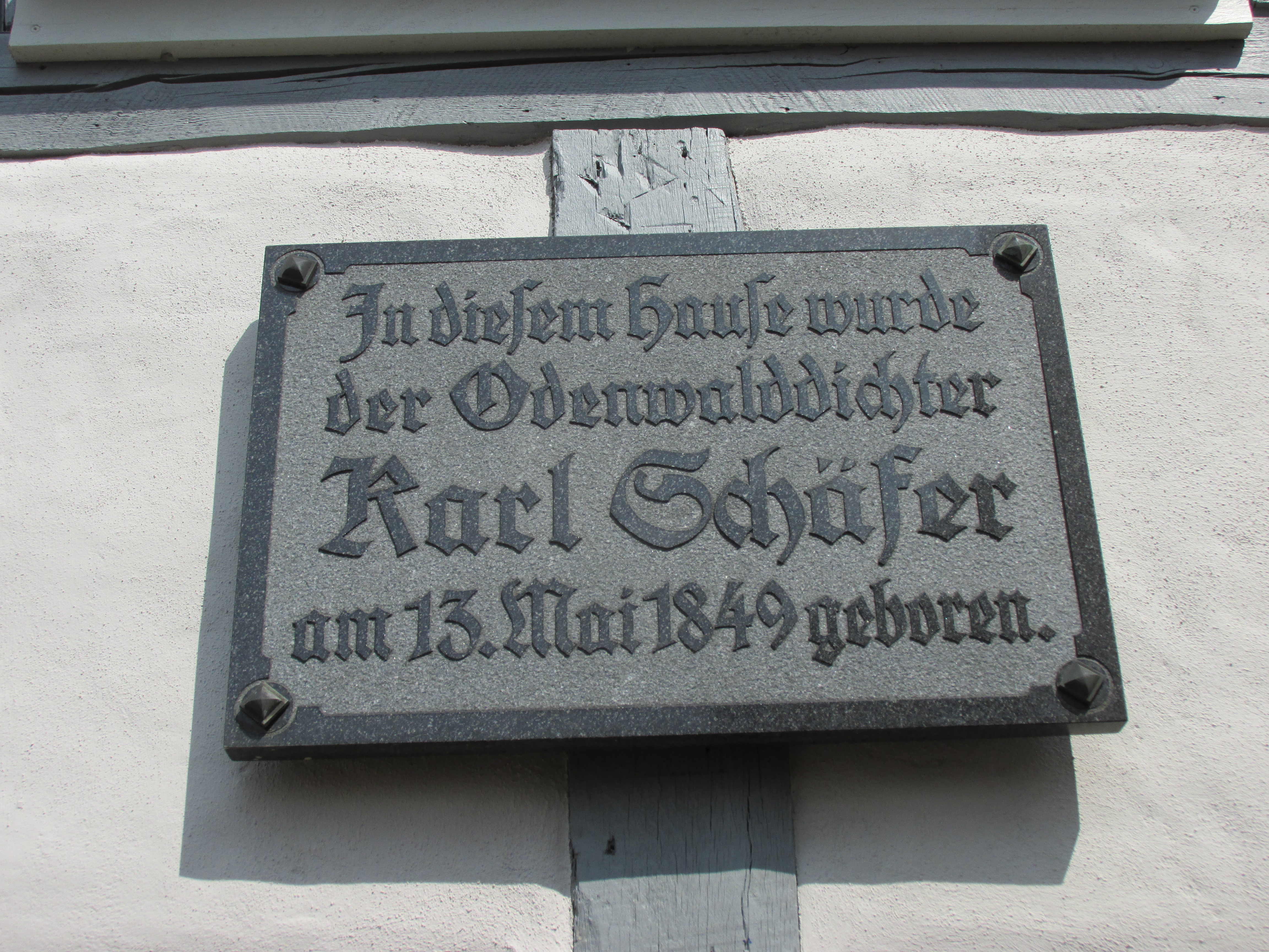 Memorial plaque for Karl Schäfer, Brensbach, Germany